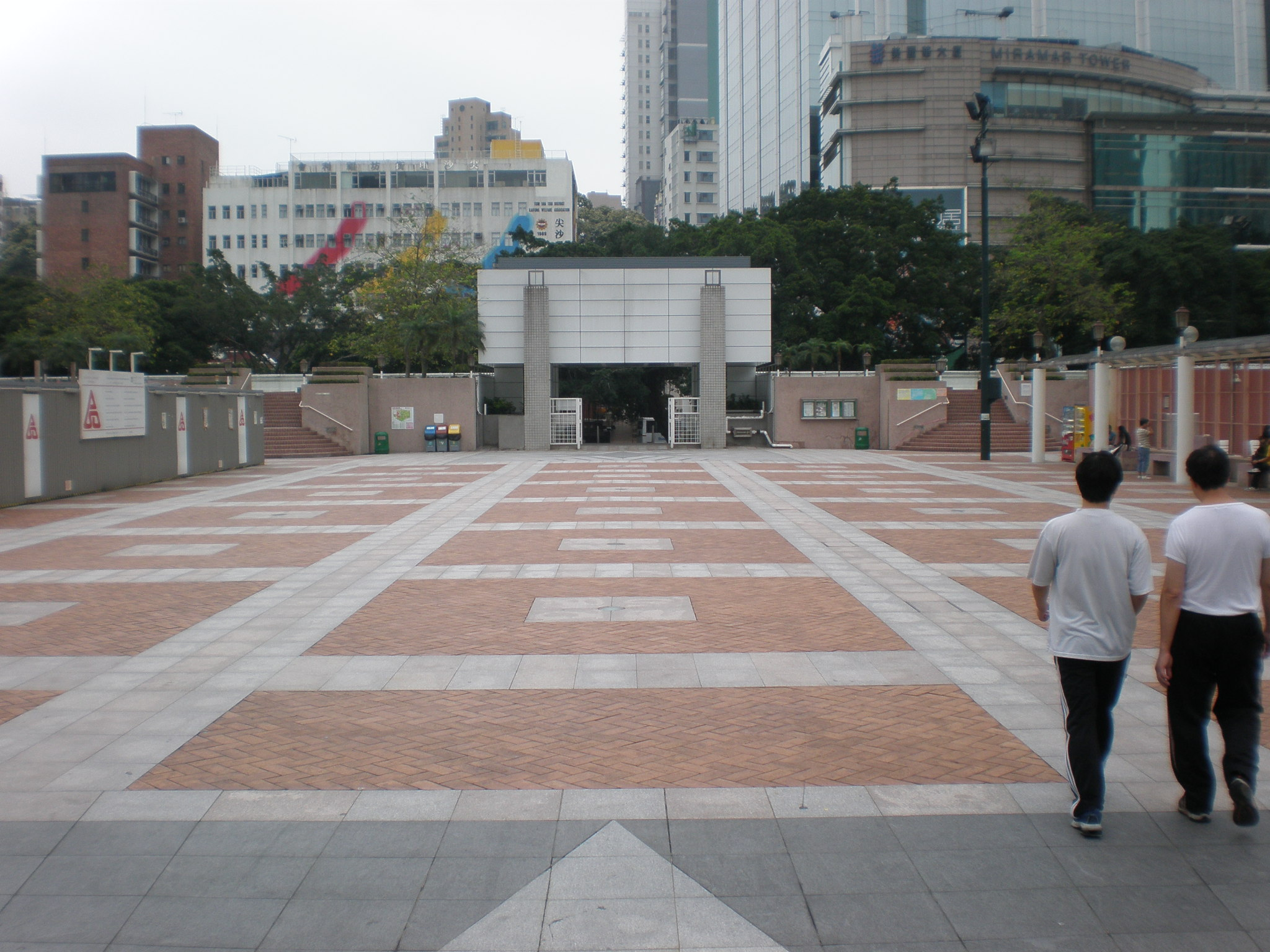 The walkway leading from the eastern entrance of Kowloon Park to its swimming pool.